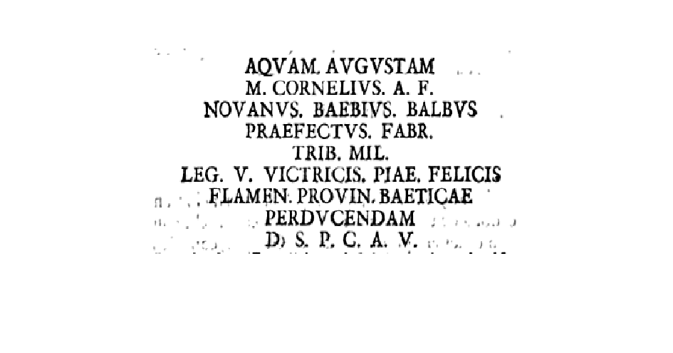 lapida de la epoca romana del acueducto construido por Marco Cornelio Novano Bebio Balbo, flamen provincial y prefecto del colegio de los ingenieros de Igabrum